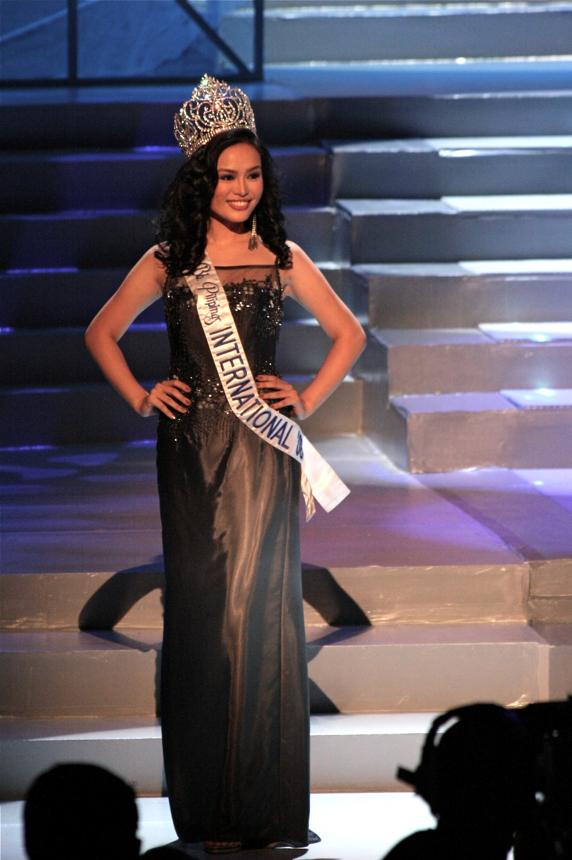 photographer: jfgarcia taken: march 9, 2009 binibining pilipinas 2009